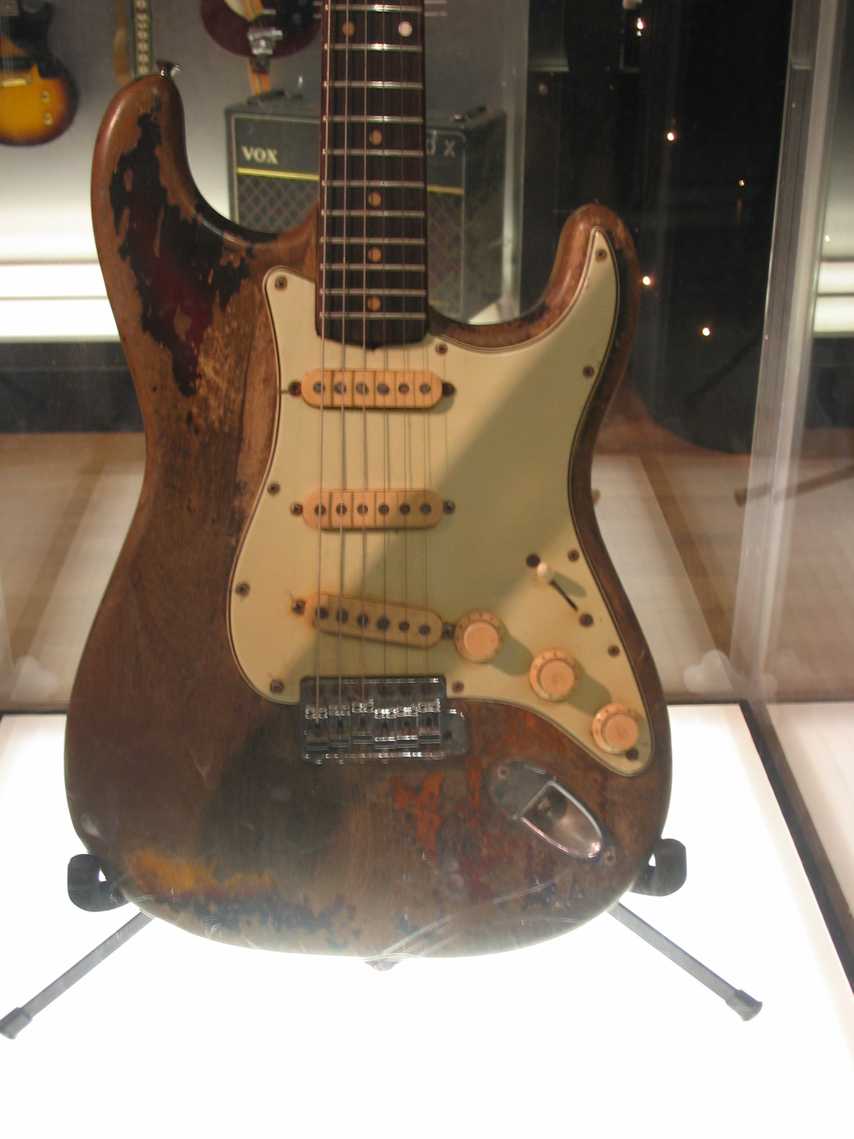 Rory Gallagher's 1961 Fender Stratocaster